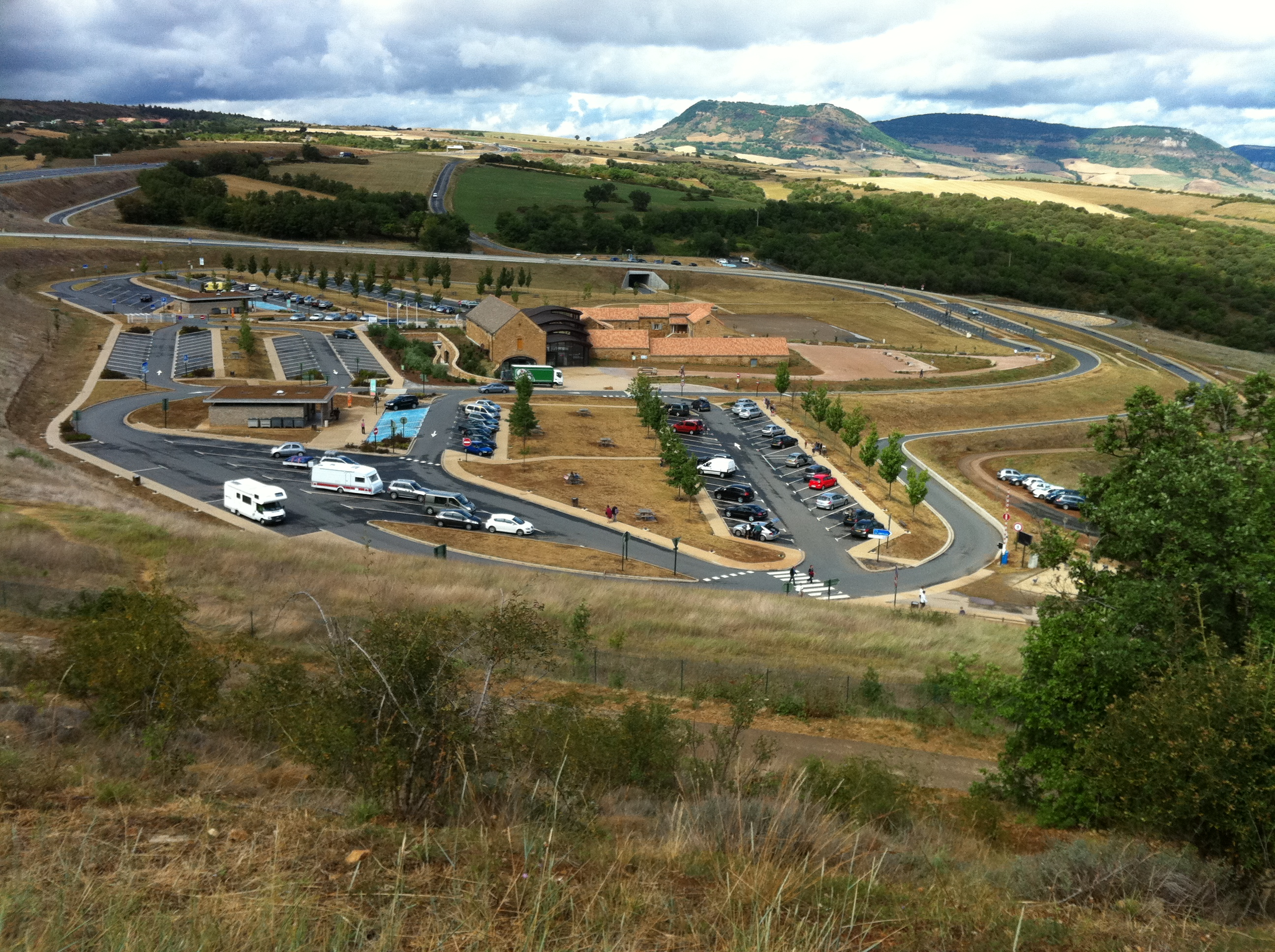 Viaduct Millau infocentre